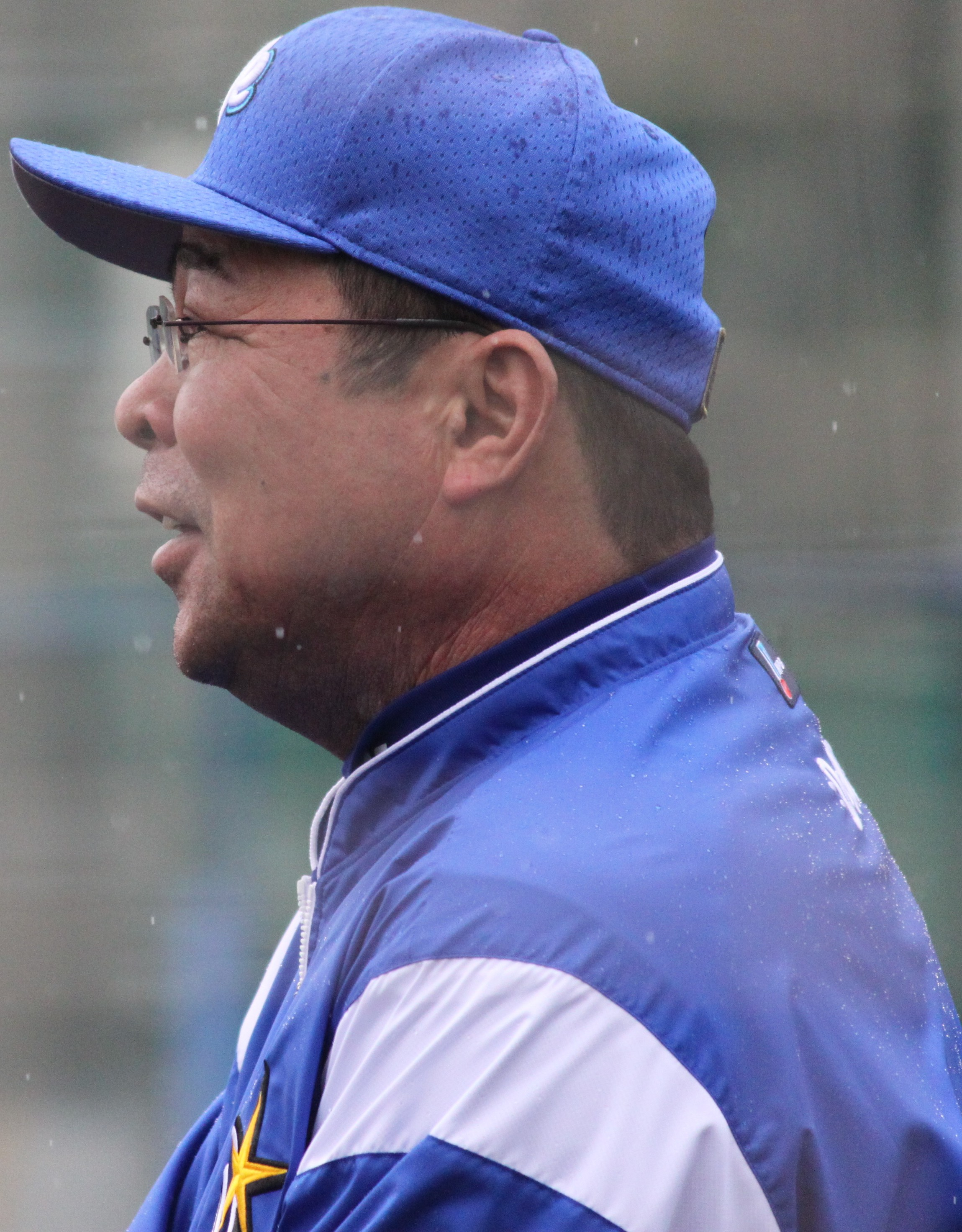 Kazuhiko Yamashita, coach of the Yokohama DeNA BayStars, at Yokohama DeNA BayStars Baseball Integrated training field.